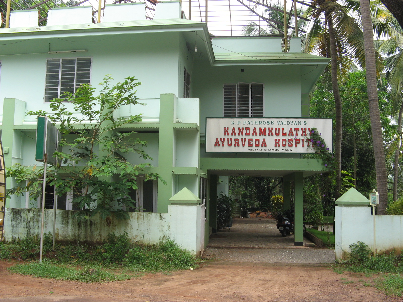 Kandamkulathy Ayurveda Hospital, Mala, Kerala